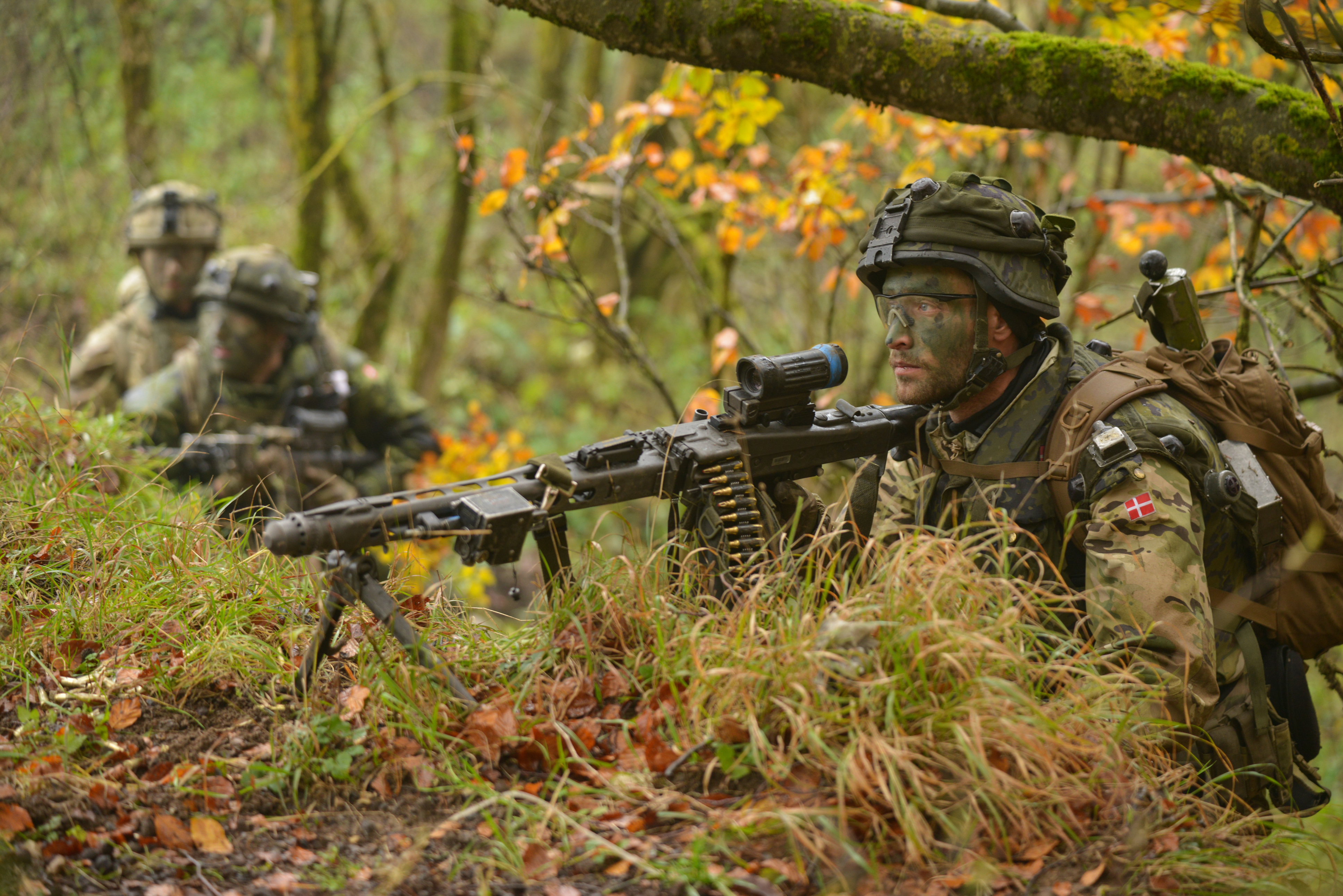 Danish soldiers eye the enemy position during exercise Combined Resolve III at the U.S. Army's Hohenfels Training Area, Germany, Nov. 6, 2014. Combined Resolve III is a U.S. Army Europe-directed multinational exercise at the Grafenwoehr and Hohenfels Training Areas, including more than 4,000 participants from NATO and partner nations. Combined Resolve III is designed to provide a complex training scenario that focuses on multinational unified land operations and reinforces the U.S. commitment to NATO and Europe. The exercise features the U.S. Army’s Regionally Aligned Force for Europe - the 1st Brigade Combat Team, 1st Cavalry Division - which supports the U.S. European Command during Operation Atlantic Resolve. (U.S. Army photo by Visual Information Specialist Markus Rauchenberger/released)